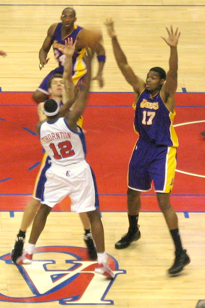 Andrew Bynum of the Los Angeles Lakers guards Al Thornton of the Los Angeles Clippers.